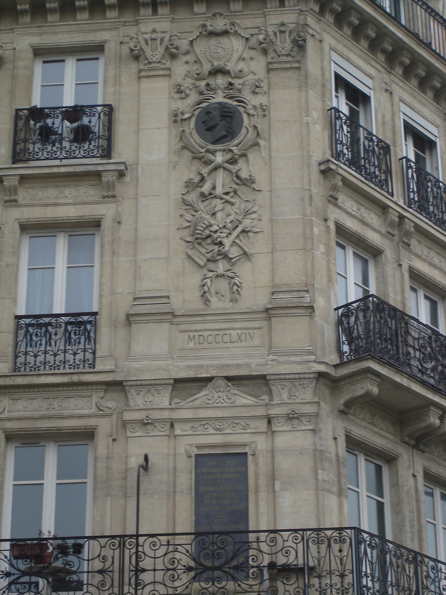 Medaillon of the playwright Sedaine and plate mentionning his main plays, located on the building at the cross of Bd Richard-Lenoir and Rue Sedaine.